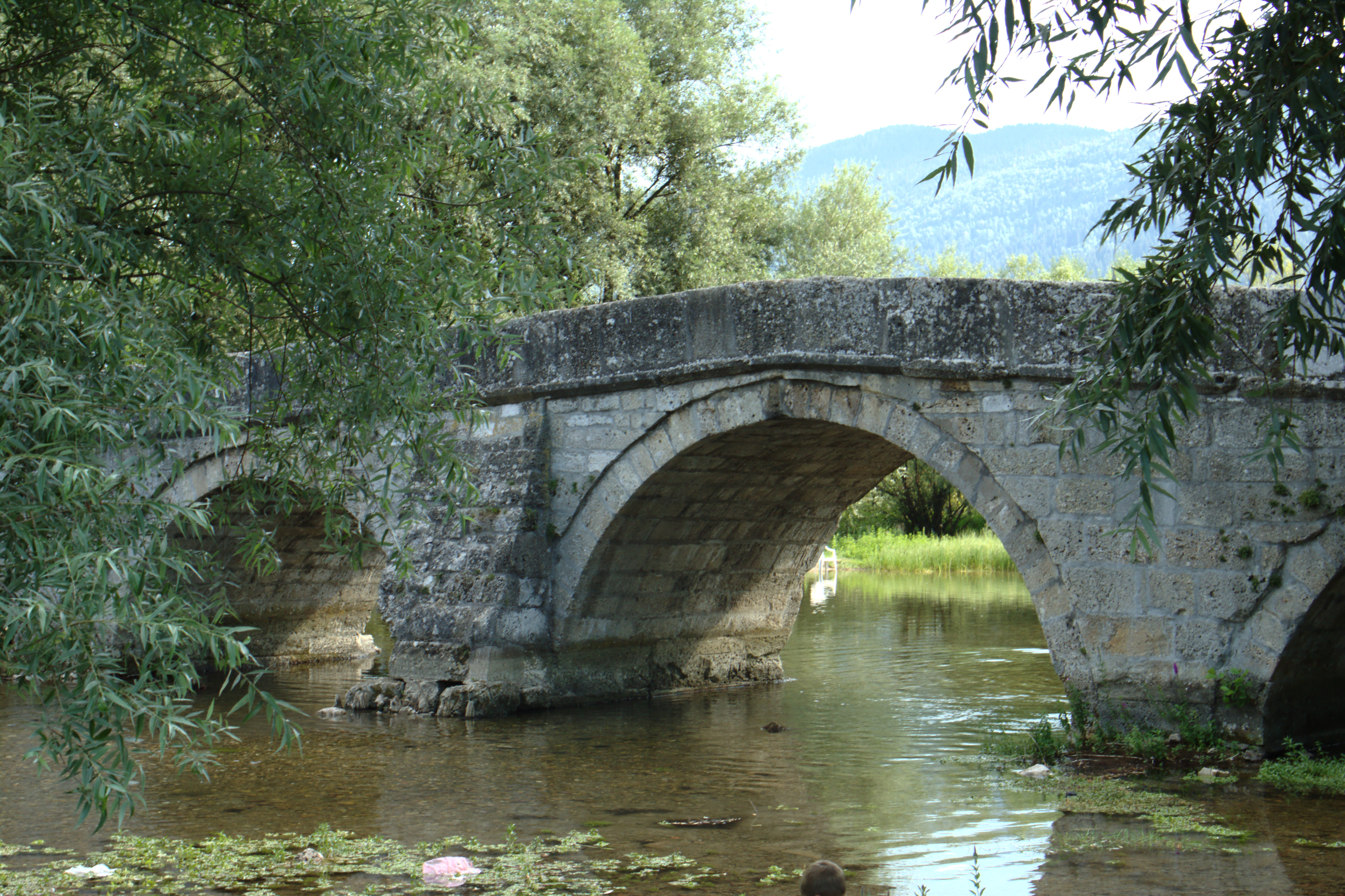 Roman bridge near Ilidža, Sarajevo, BiH